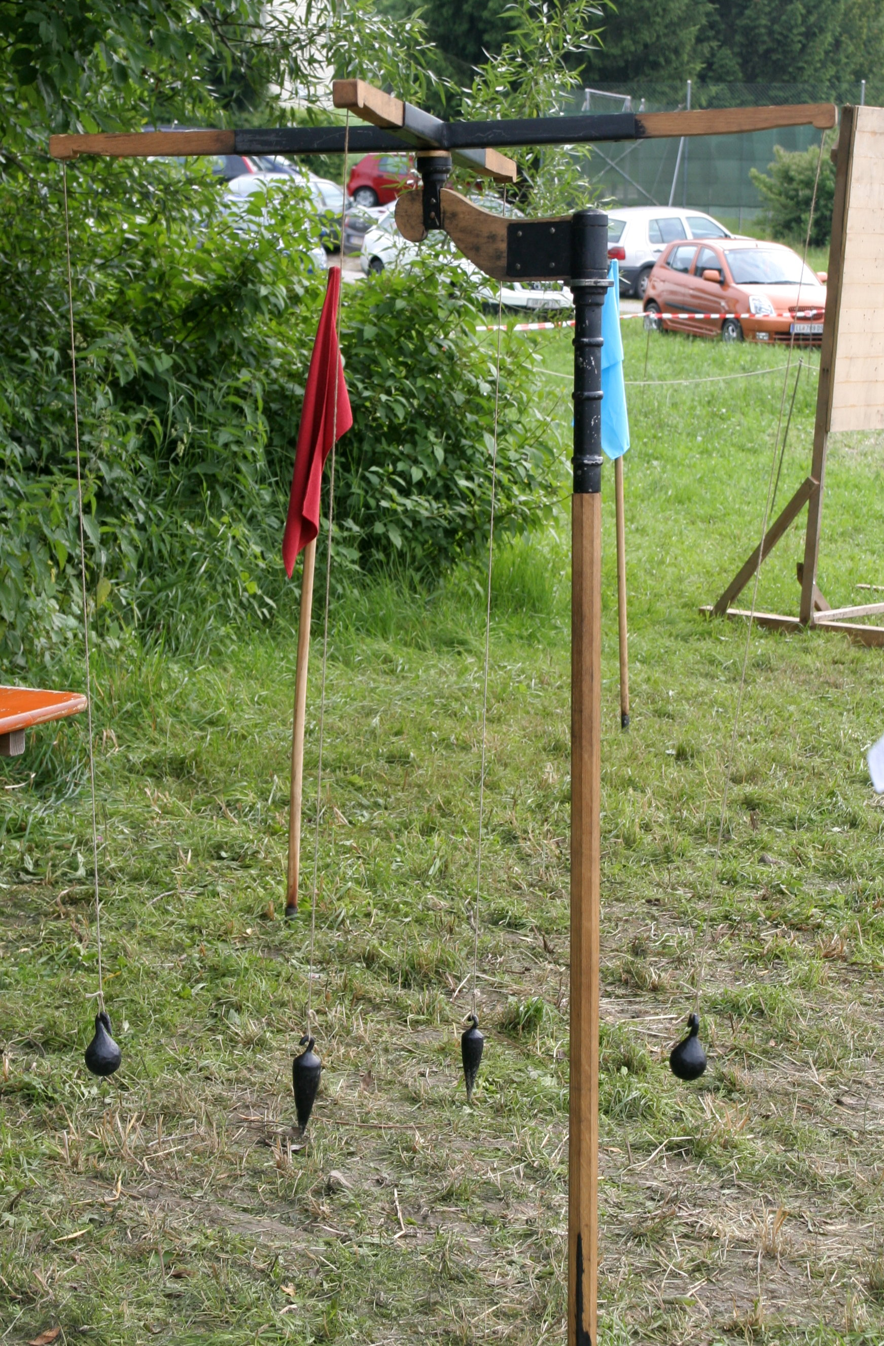 Groma Photographed by myself during a show of Legio XV from Pram, Austria